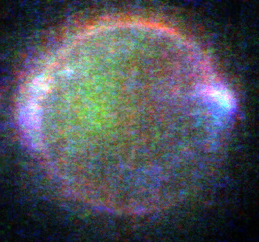 This eerie view of Jupiter's moon Io in eclipse (left) was acquired by NASA's Galileo spacecraft while the moon was in Jupiter's shadow. Gases above the satellite's surface produced a ghostly glow that could be seen at visible wavelengths (red, green, and violet). The vivid colors, caused by collisions between Io's atmospheric gases and energetic charged particles trapped in Jupiter's magnetic field, had not previously been observed. The green and red emissions are probably produced by mechanisms similar to those in Earth's polar regions that produce the aurora, or northern and southern lights. Bright blue glows mark the sites of dense plumes of volcanic vapor, and may be places where Io is electrically connected to Jupiter. North is to the top of the picture, and Jupiter is towards the right. The resolution is 13.5 kilometers (8 miles) per picture element. The images were taken on May 31, 1998 at a range of 1.3 million kilometers (800,000 miles) by Galileo's onboard solid state imaging camera system during the spacecraft's 15th orbit of Jupiter.